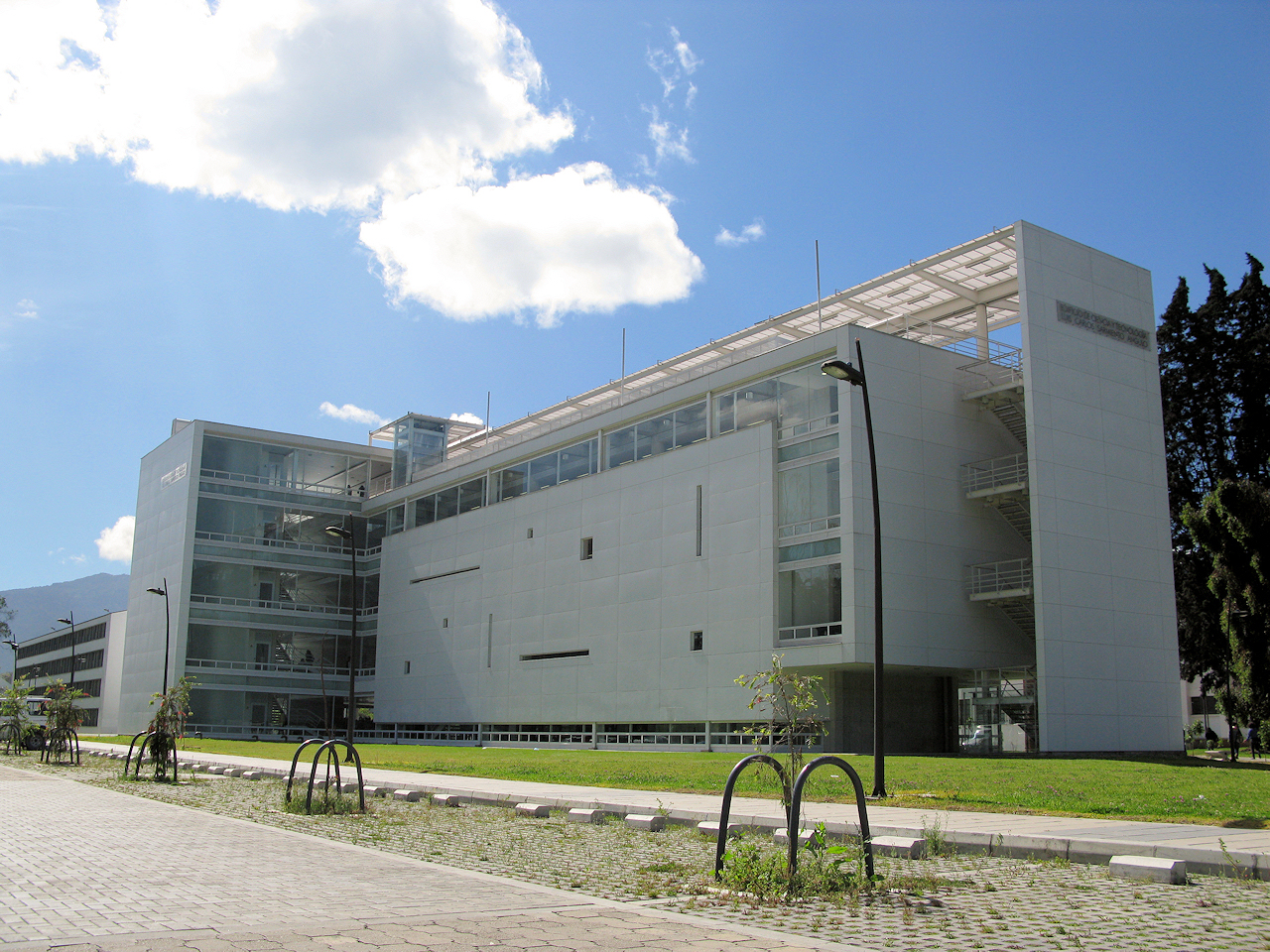 Building in Universidad Nacional Bogota